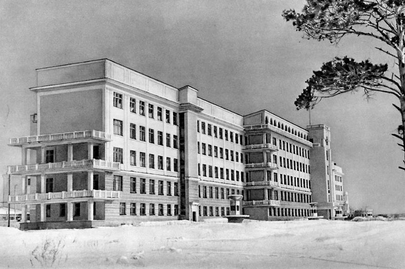 Sverdlovsk, Hospital; Architect: Yugov; Year: 1936-1939